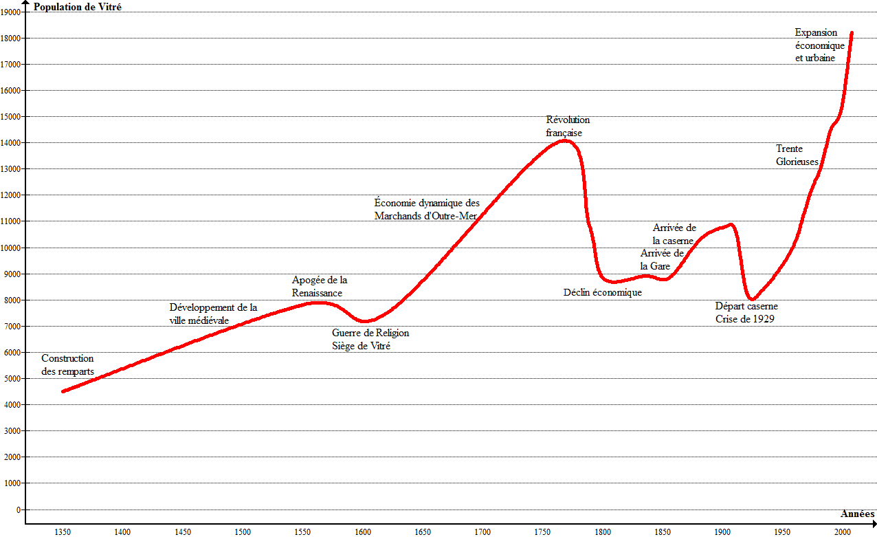 Population of Vitré 13th - 21st century